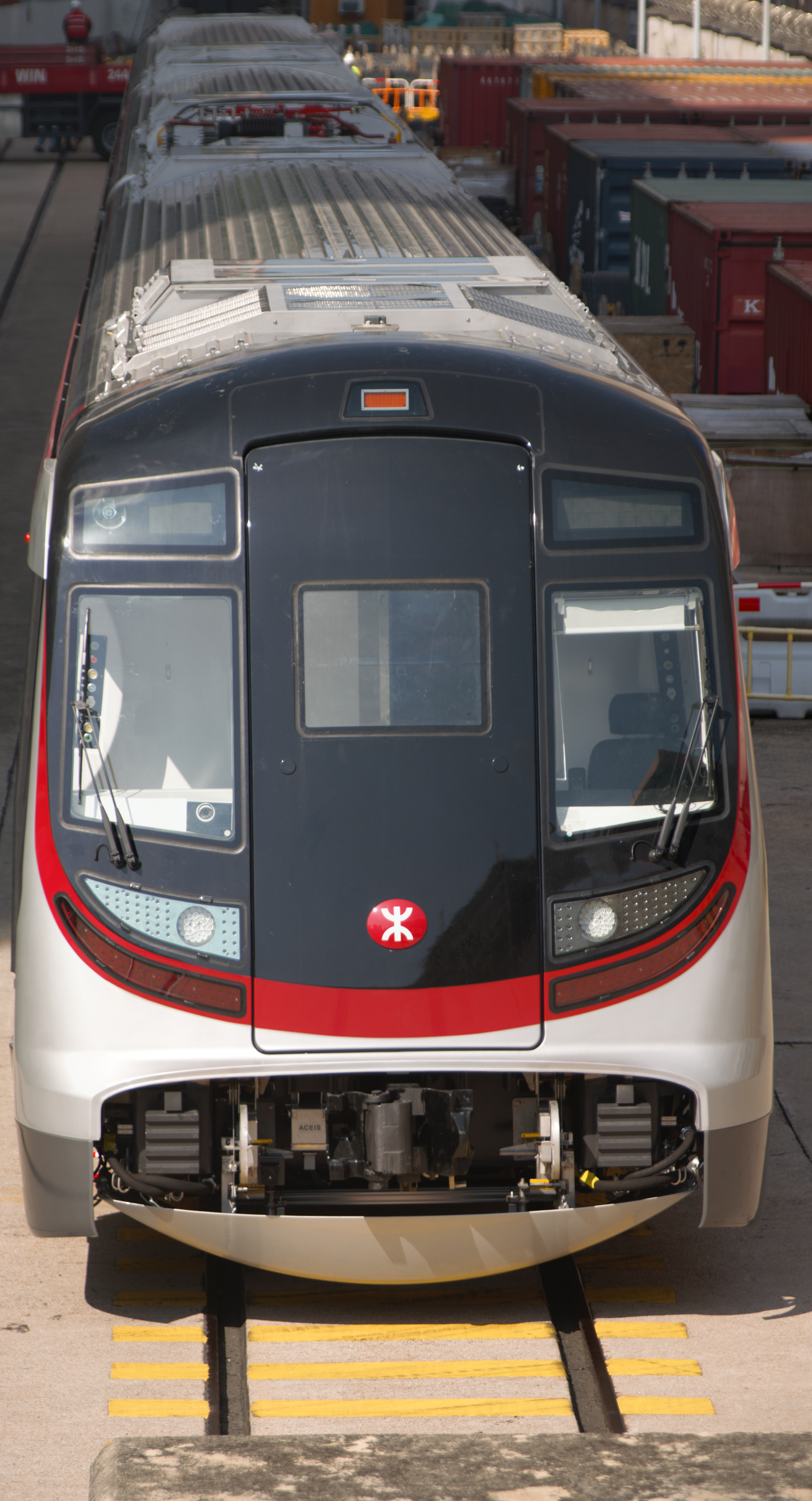 MTR East Rail Line Hyundai Rotem EMU - Compartment D007 - Head